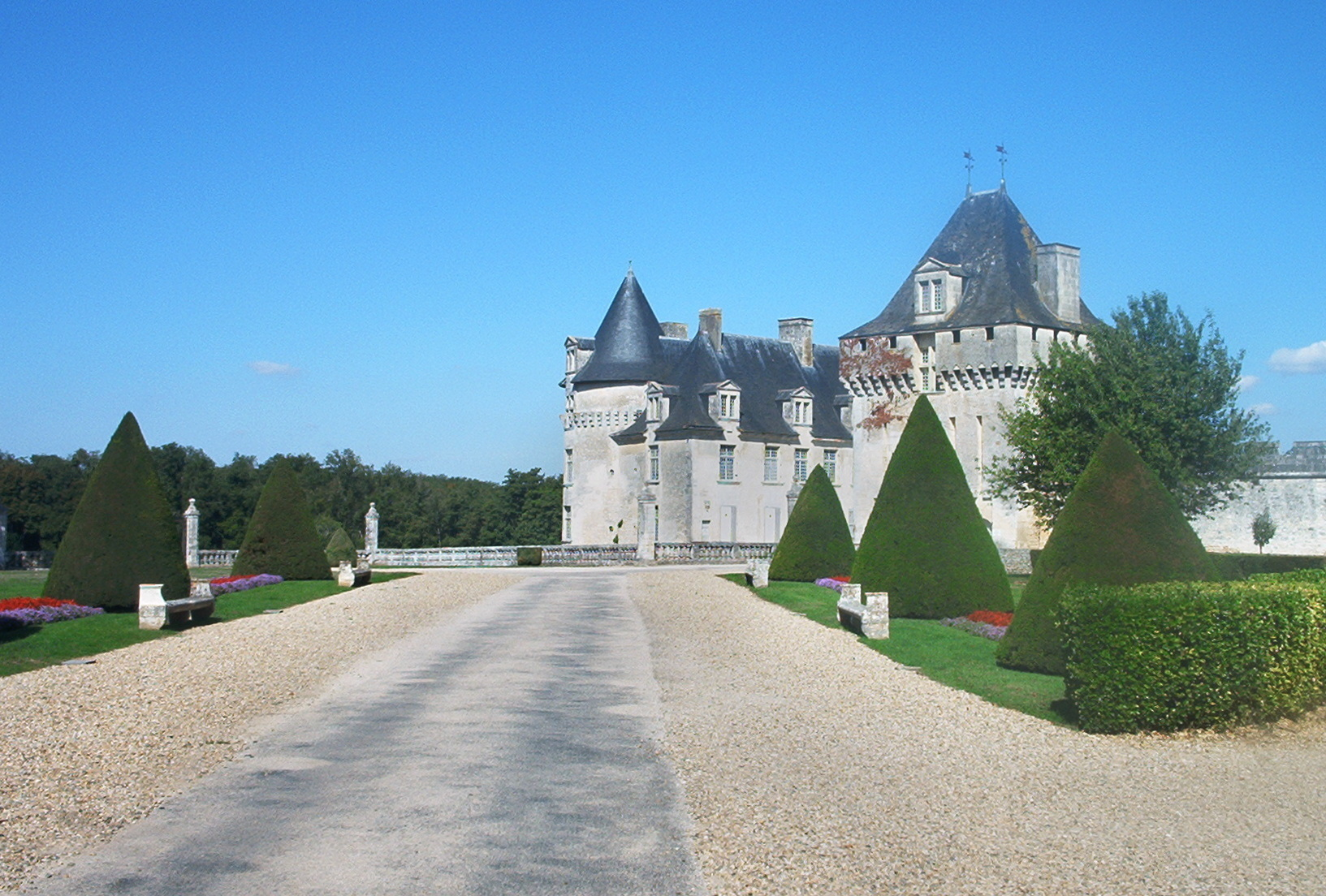 Photographer: User:Ballista